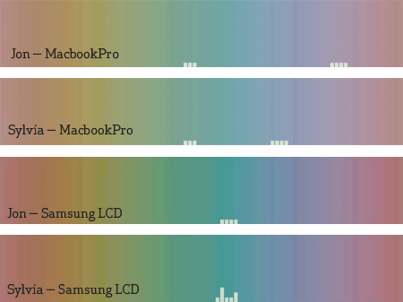 Distribution of error across different displays.